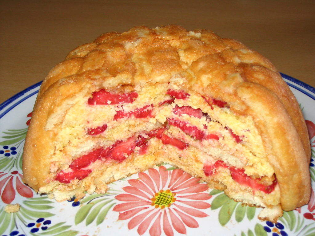 Strawberry Charlotte